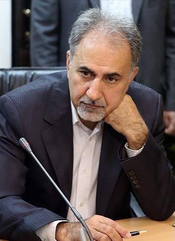 Mohammad Ali Najafi